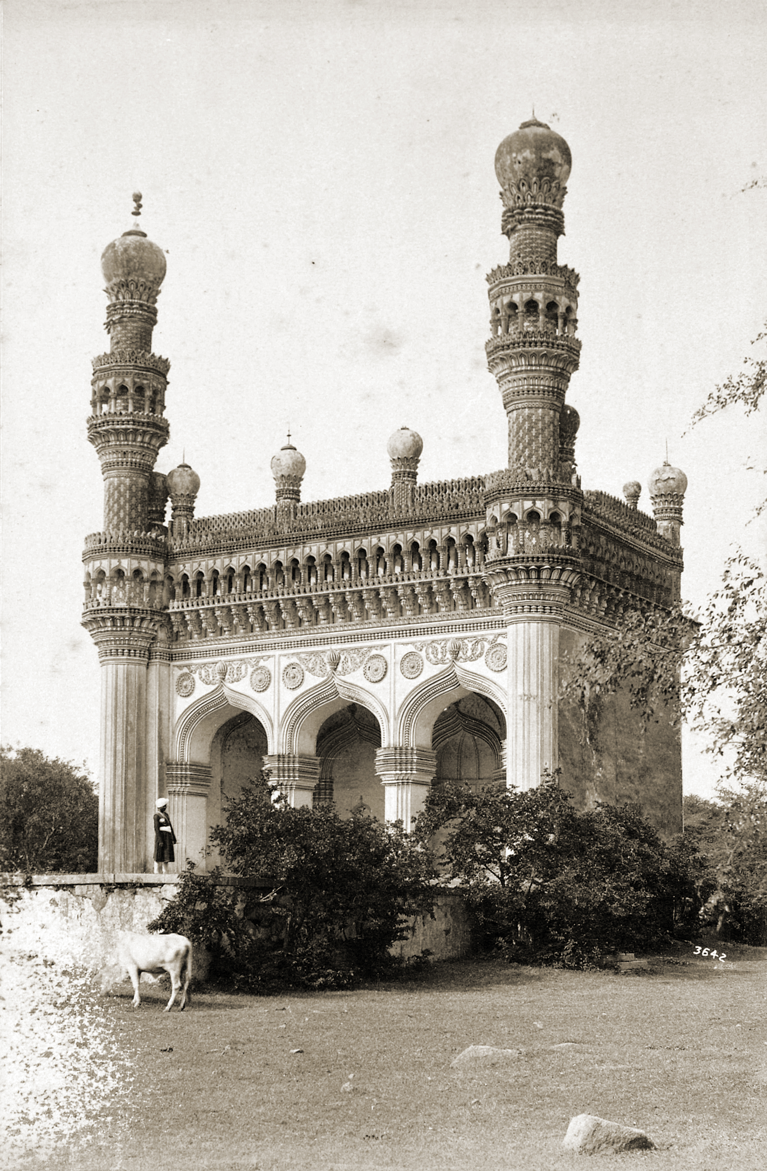 Khairtabad Mosque, heritage mosque of 16th centure at Khairatabad, a suburb (now locality) of Hyderabad in Andhra Pradesh, taken by Deen Dayal in the 1880s.